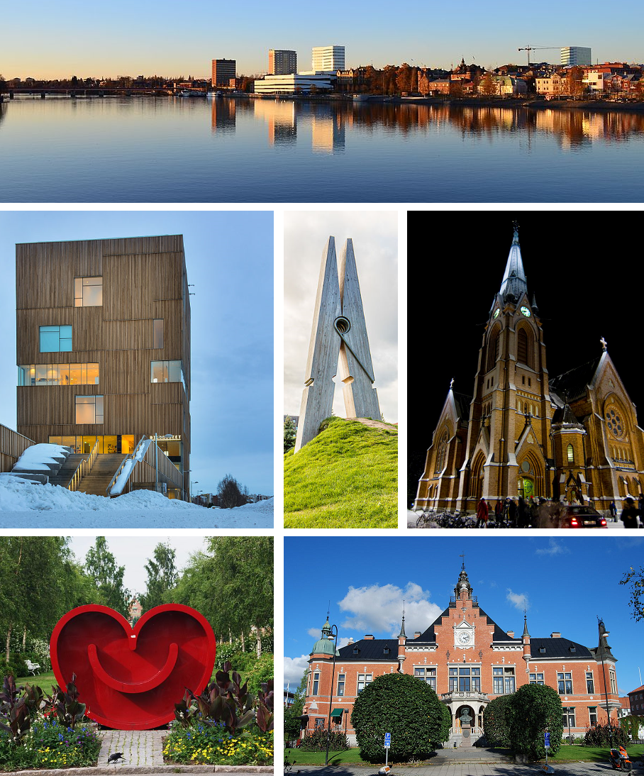 Montage of various landmarks in Umeå.